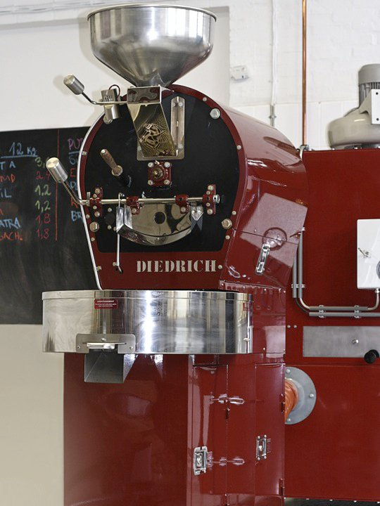 DIEDRIC infrared drum coffee roaster.